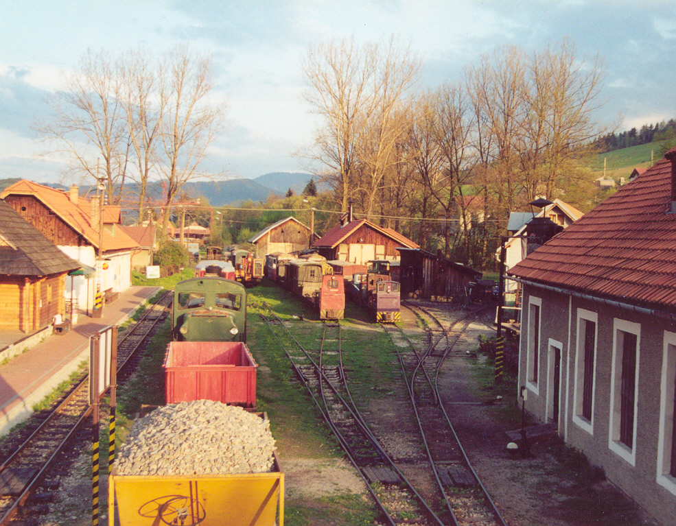 Main station ČHŽ in Čierny Balog. Author:Stanislav Jelen